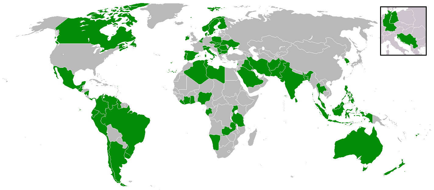 A map of the world showing the countries that gave a President of the United Nations General Assembly.